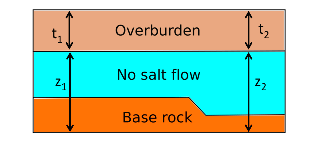 Hydraulic head 1